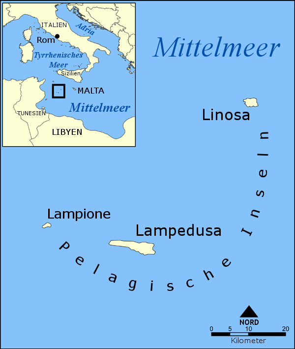 Blank version of Image:Pelagie Islands map.png. Created by NormanEinstien.